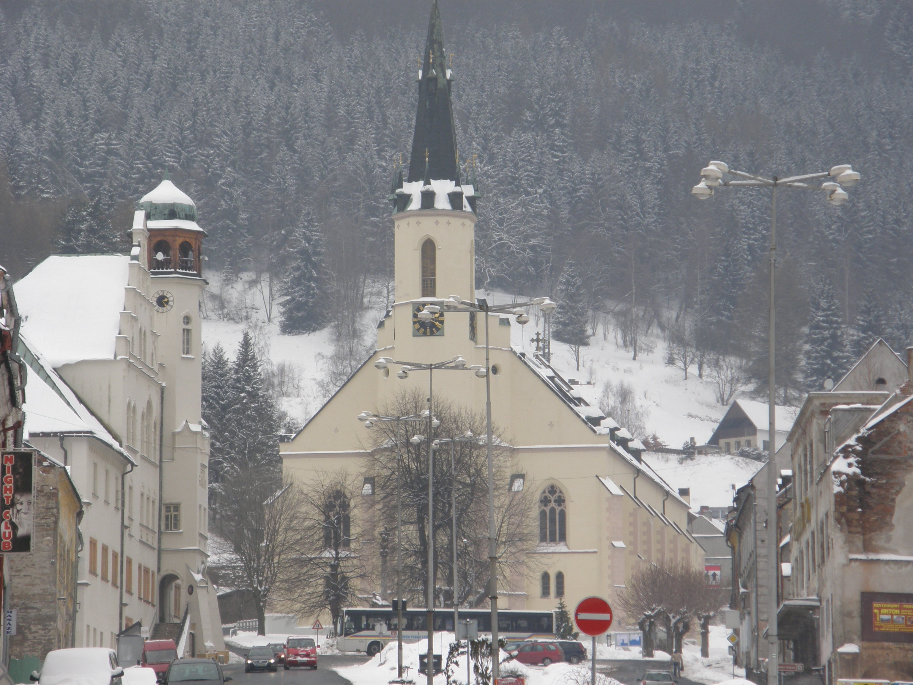 St. Joachim church in Jáchymov, distr. Karlovy Vary, Czech Republic